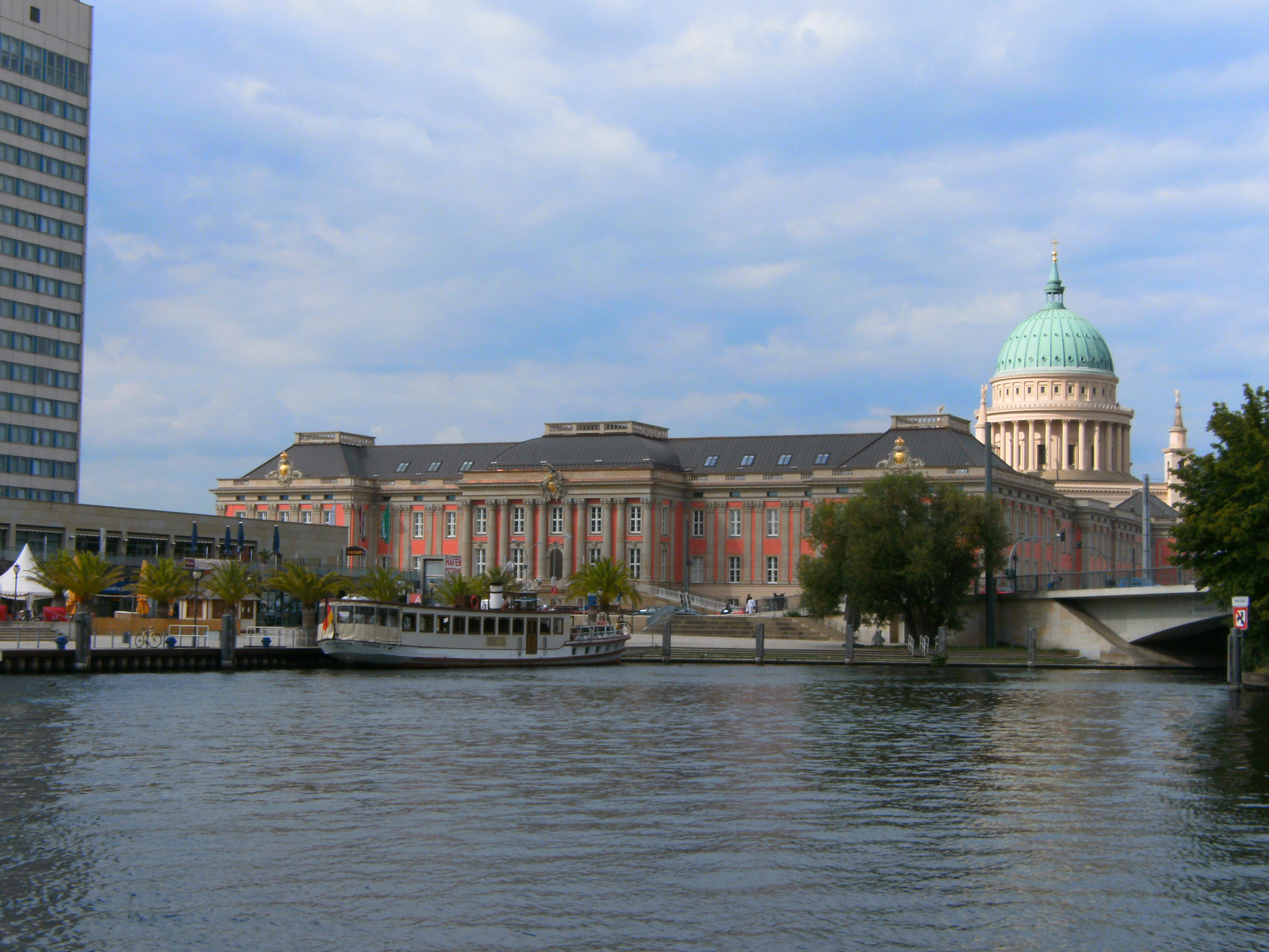 Stadtschloss in Potsdam in August 2013, seen from river Havel.